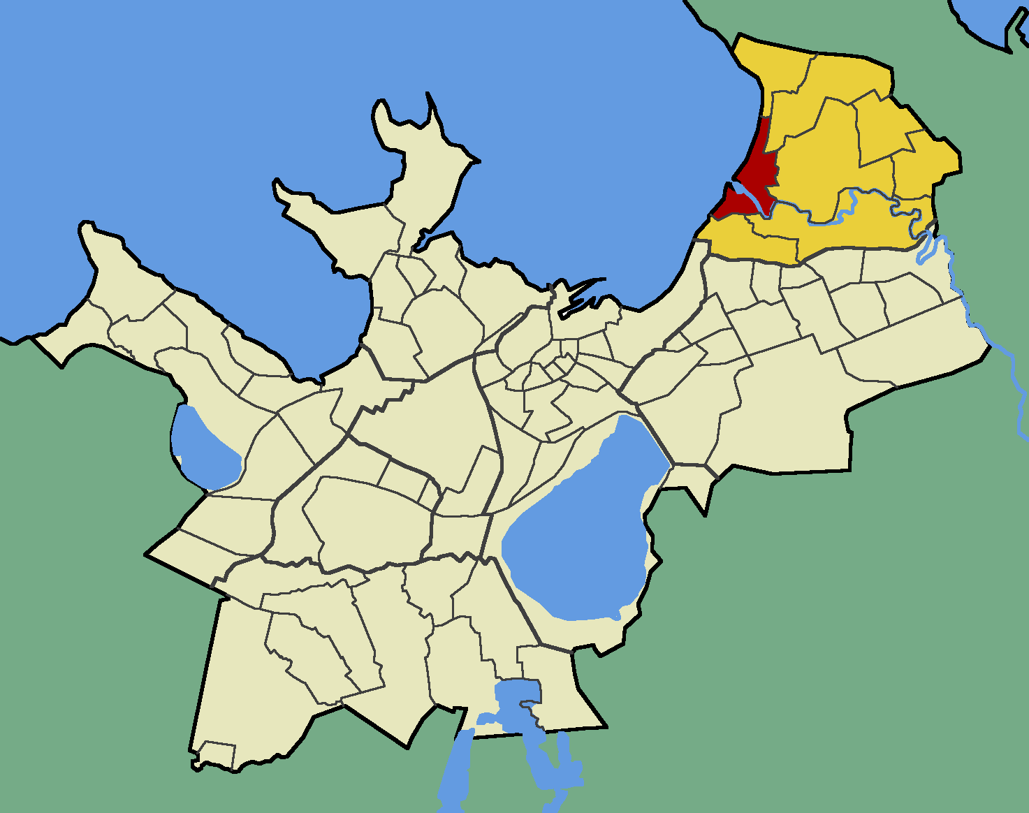 Map of Tallinn (Estonia) with borders of the quarters, Pirita district and Pirita quarter emphasised